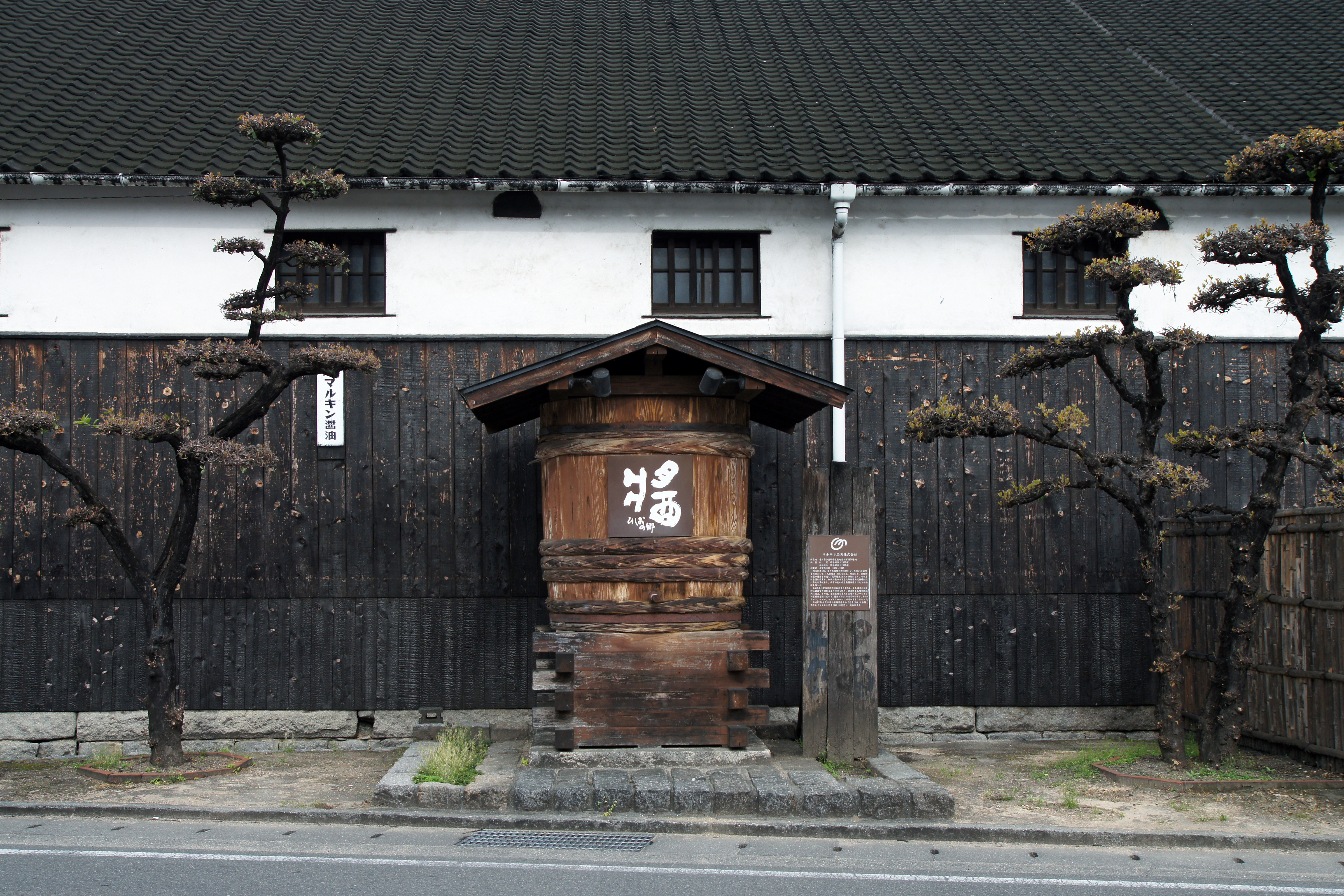 Hishio-no-sato of Shodo Island in Shodoshima, Kagawa prefecture, Japan